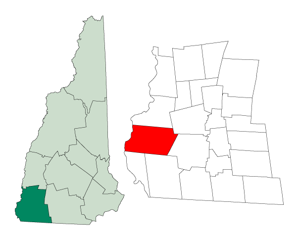 Map of a municipality in Cheshire County, New Hampshire